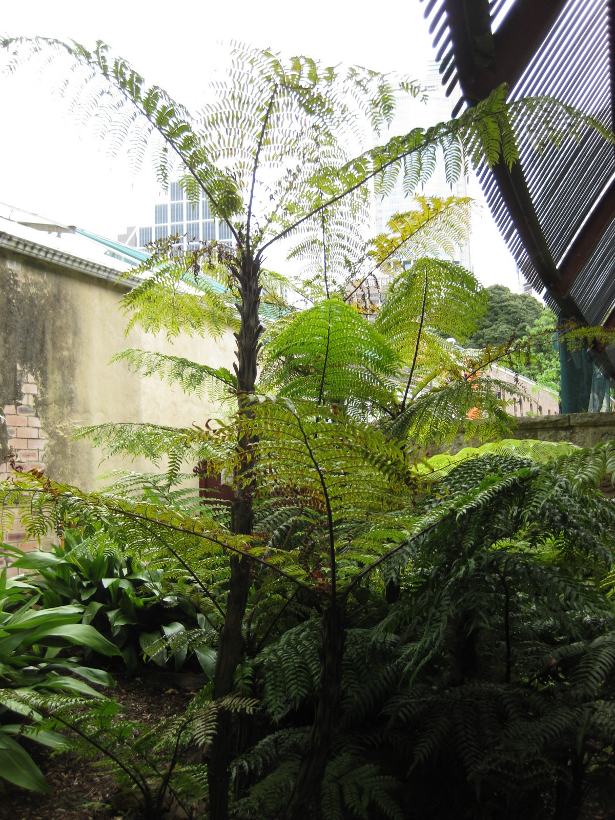 Photographed at the Royal Botanic Gardens Sydney (Australia) in January